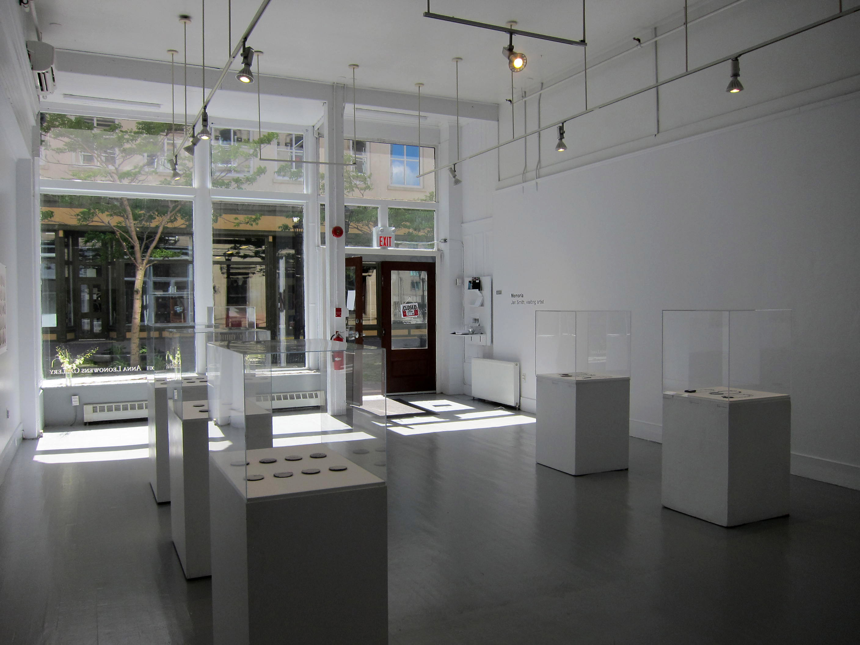 One of the rooms in the Anna Leonowens Gallery, NSCAD University.